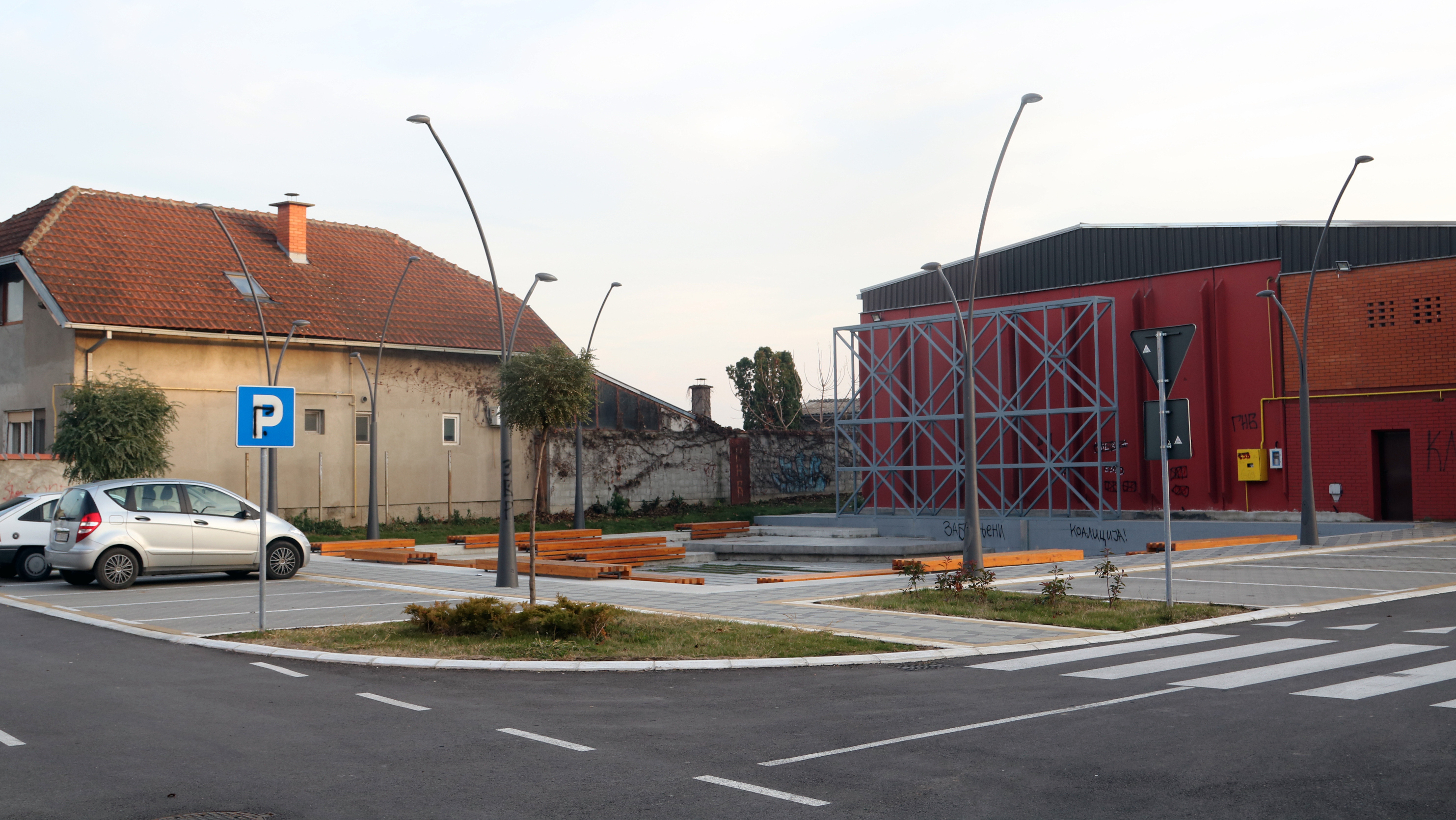 The Center for culture in Novi Banovci